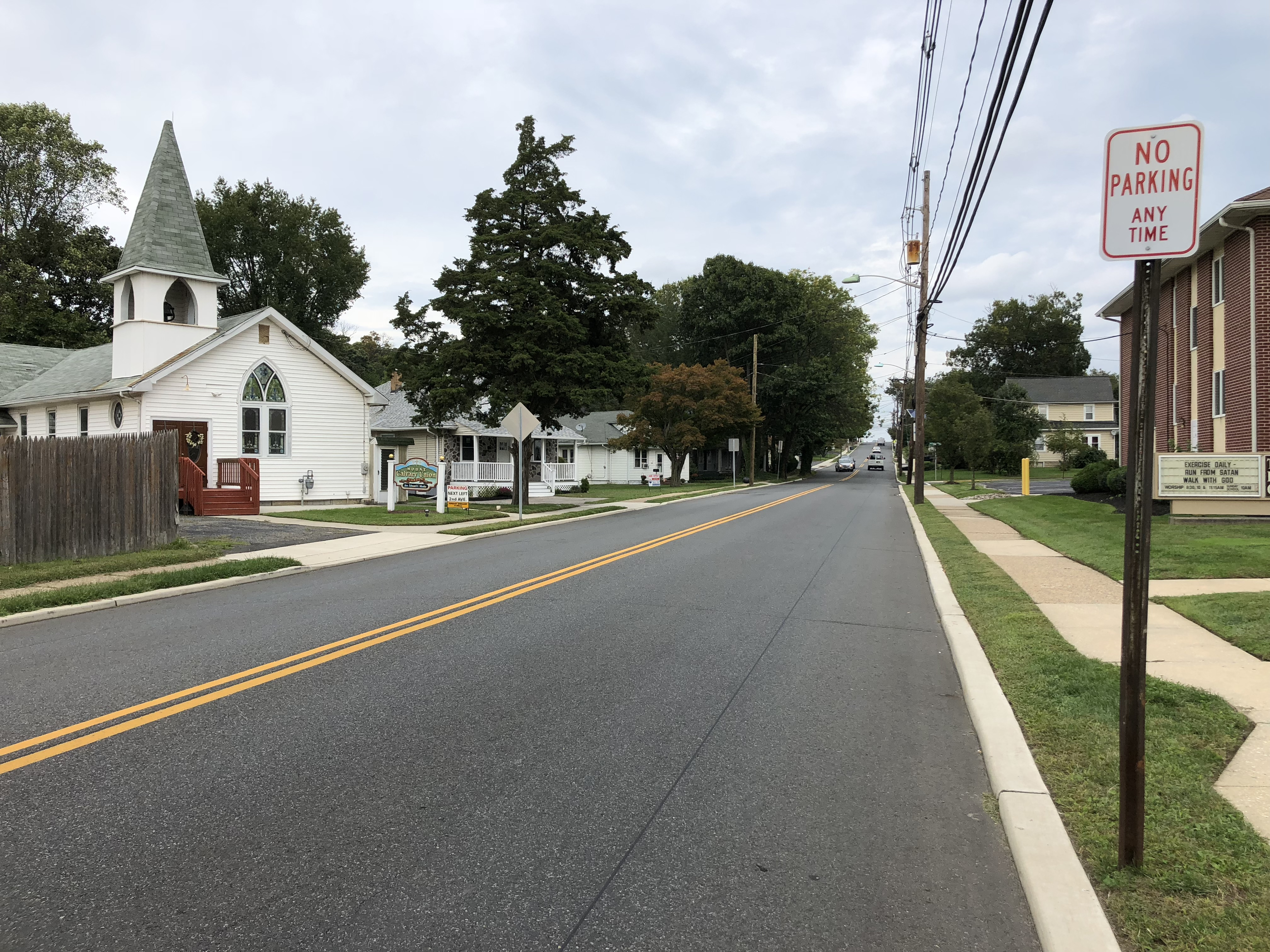 View north along New Jersey State Route 41 and Camden County Route 573 (Clements Bridge Road) at Knight Avenue in Runnemede, Camden County, New Jersey